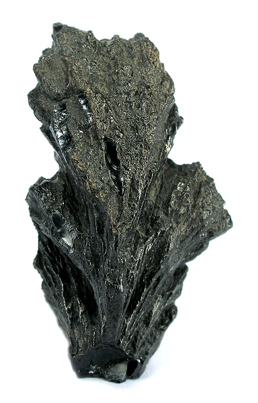 Samarskite-(Y) Locality: Bird Rock claim (Bird Rock deposit; W. M. Keenan), Lawson Peak, San Diego County, California, USA (Locality at ) Size: 4.8 x 2.7 x 1.6 cm. This one threw me for a loop and I had to ask...it has been analyzed, by the way, to confirm it. It is a verified, bizarrely-crystallized samarskite from San Diego. It is the only one I know of, and is in form unlike any other samarskite I have seen. Leo was a major San Diego area collector, known for his breadth of local specimens. Ex. Chuck Houser and Leo Horensky Collections.